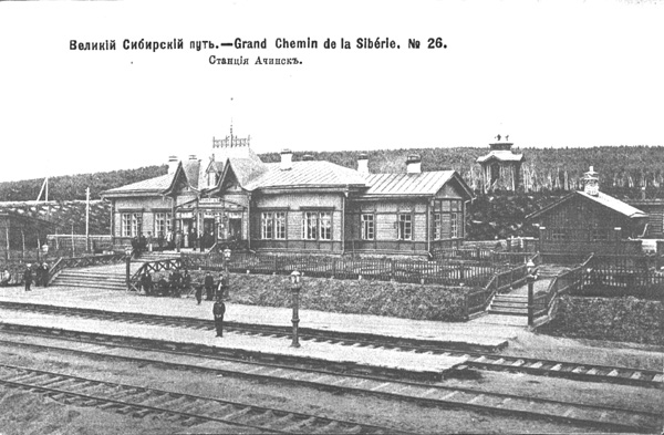 Train station of Achinsk, Russian city that lies on the transsiberian railroad in Krasnoyarsk krai. Old postcard, published in 1905.